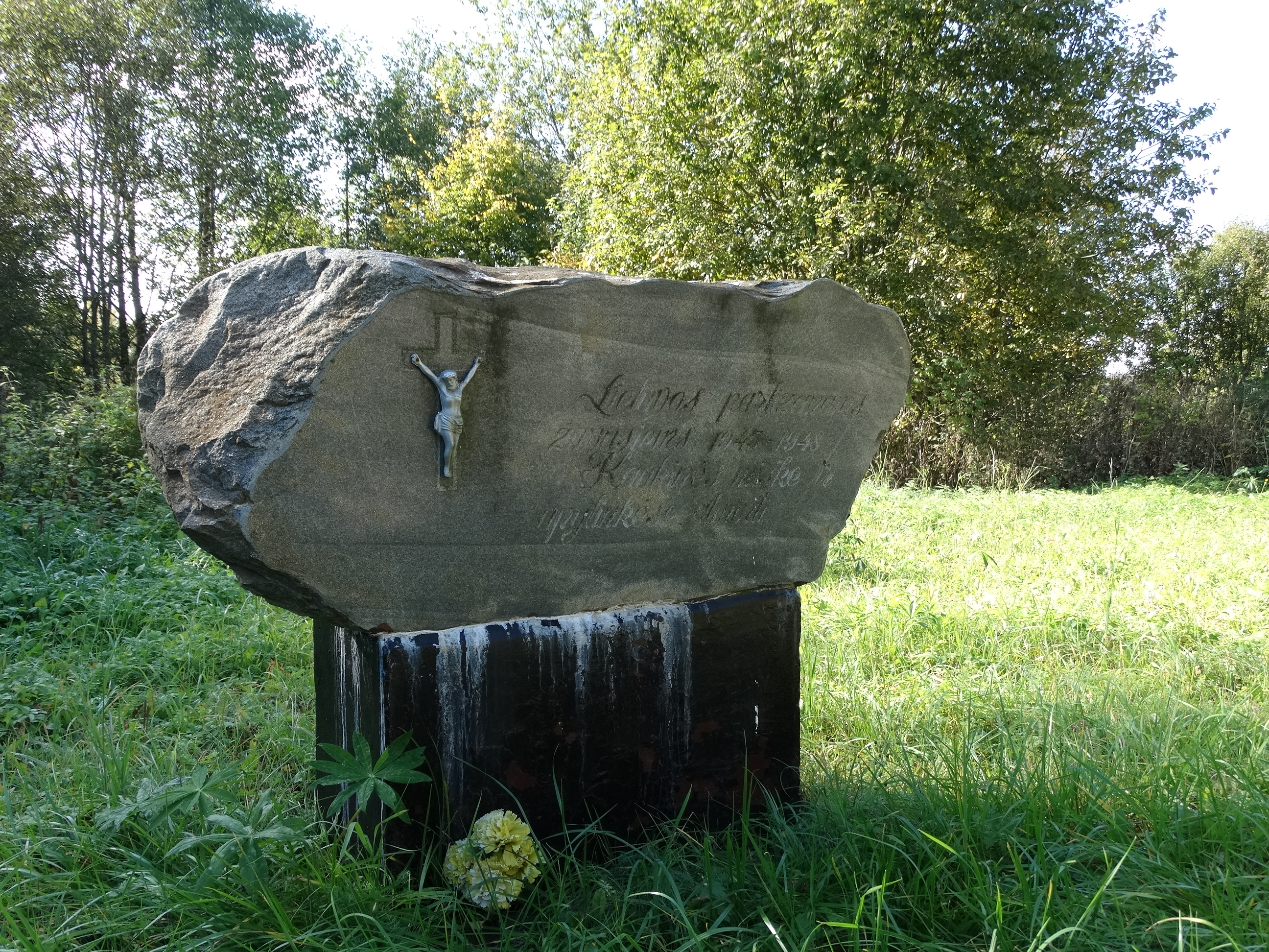 Kaukinė forest by Sutartiškės, Kaišiadorys district, Lithuania